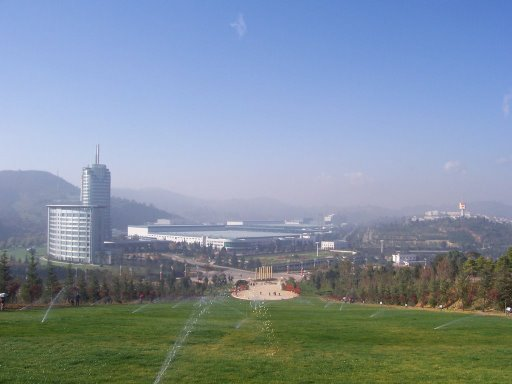 A distant view of the Hongta Group Headquarters (Hongta cigarette company)